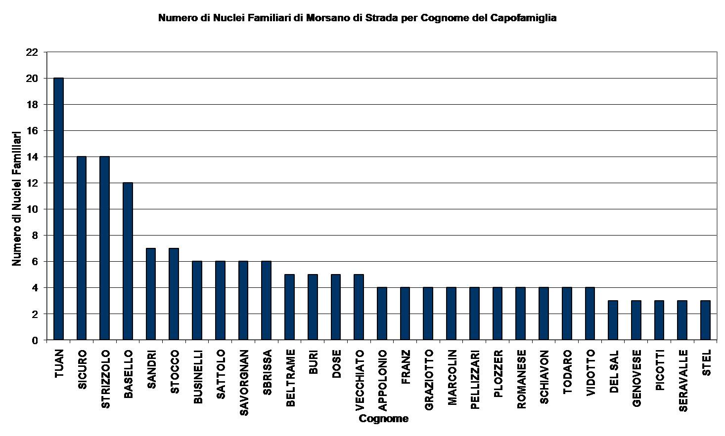 list of surnames of Morsano di Strada